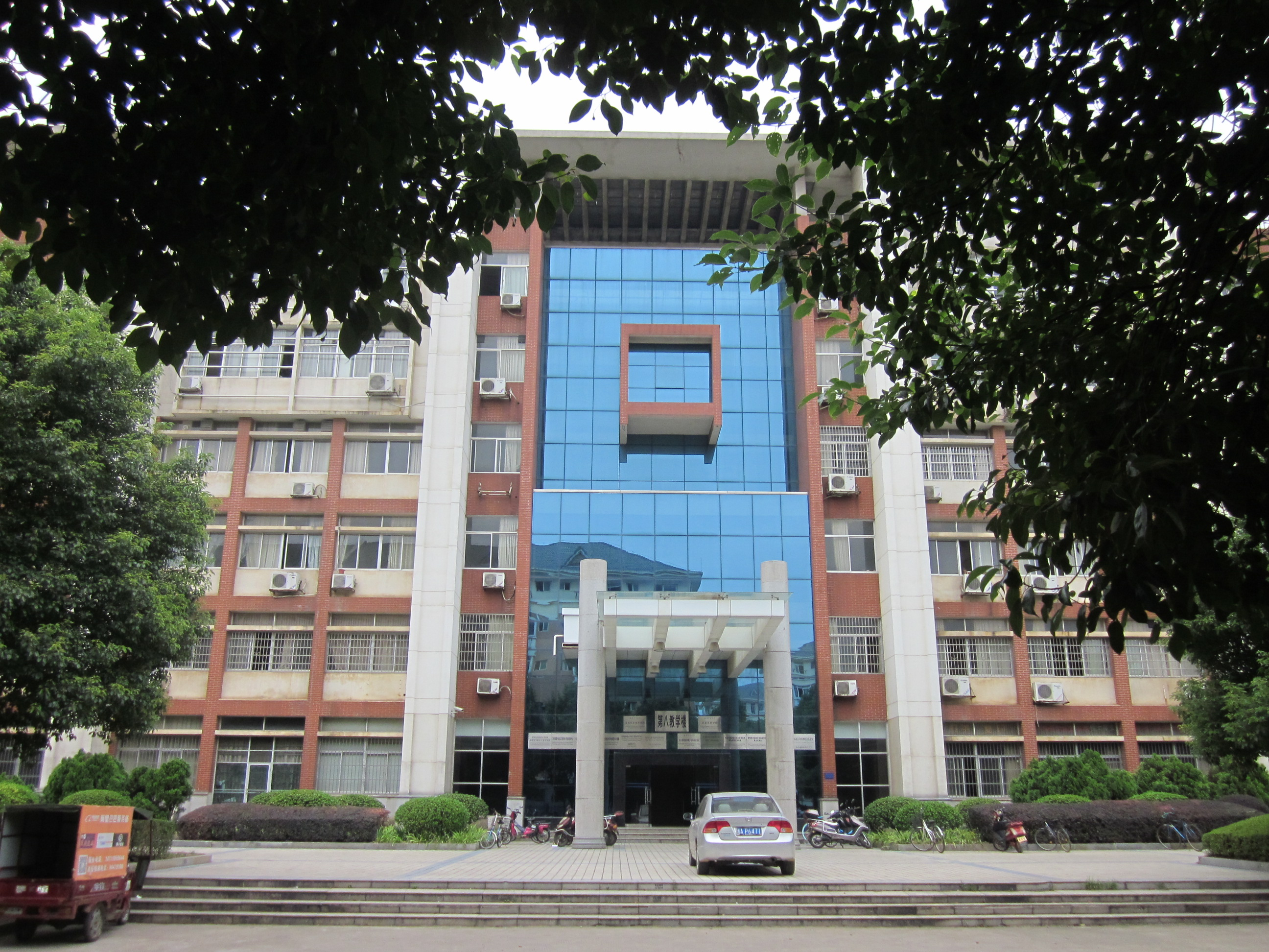 Hunan Agricultural University (Chinese: 湖南农业大学 pinyin: Húnán Nóngyè Dàxué, commonly referred to as HAU or Nongda) is a public research university located in Changsha, Hunan, China.